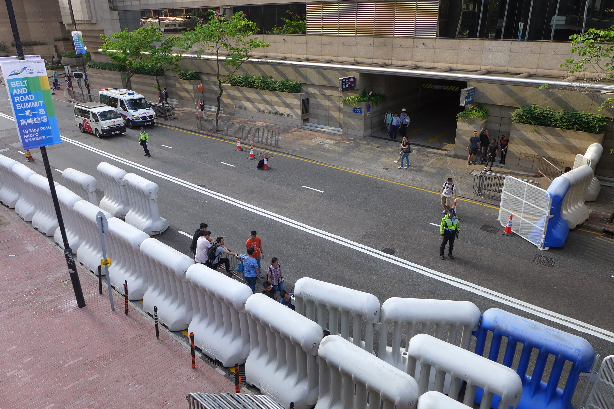 Harbour Road Roadblock